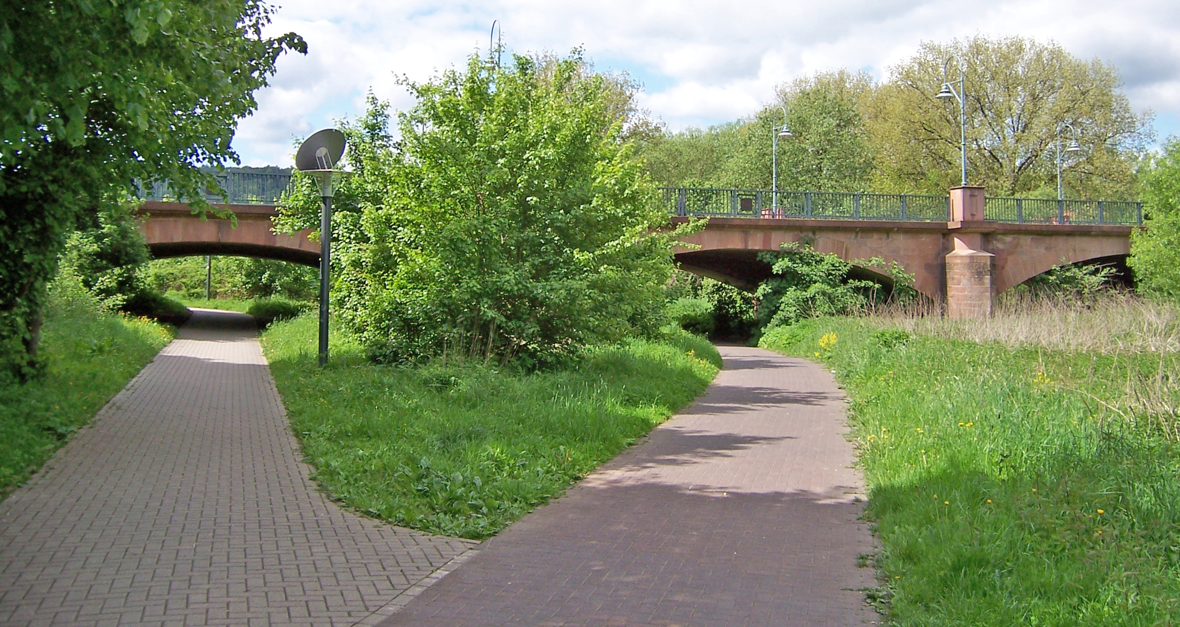 Schützenpfuhl bridge in Marburg